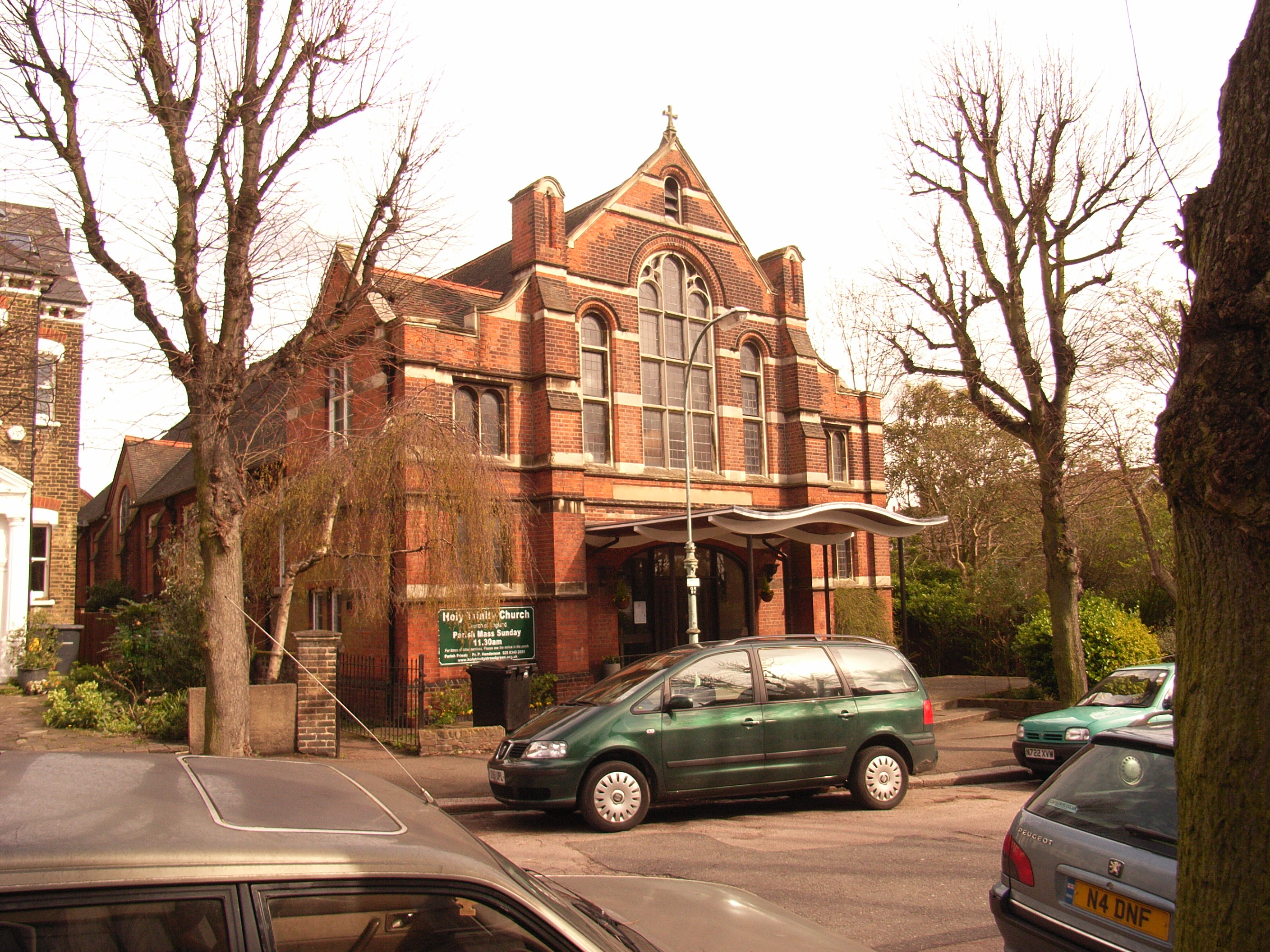 Holy Trinity church, Granville Road, Stroud Green, London, N4. Architect - John Samuel Alder